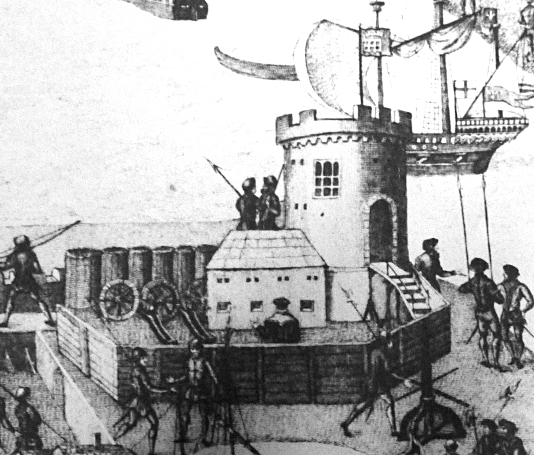 Detail of an engraving showing the round tower based on a 16th century wall painting